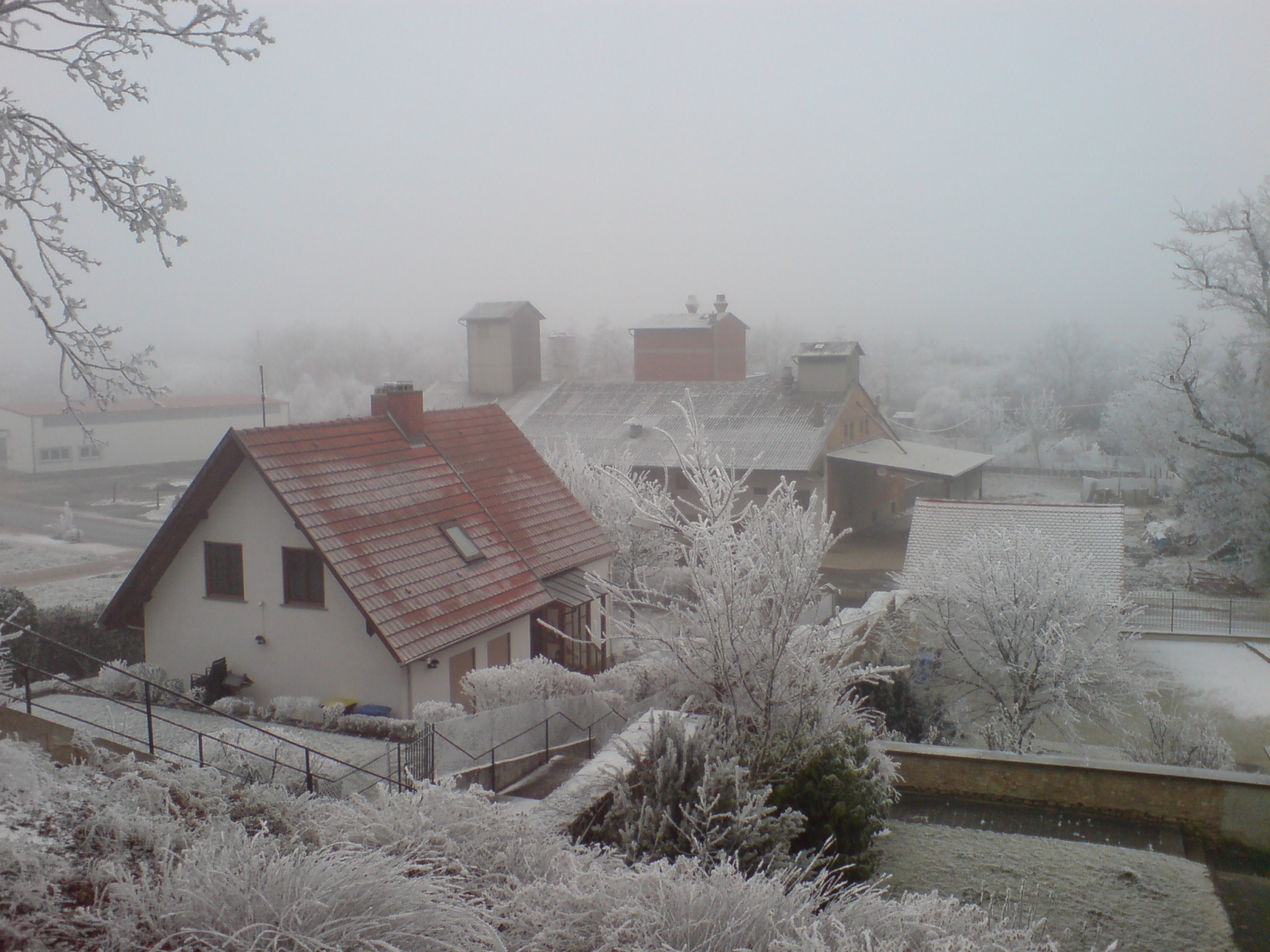 A residential building (foreground) and an agricultural building (background) seen in Freimersheim, Rhineland-Palatinate, Germany.